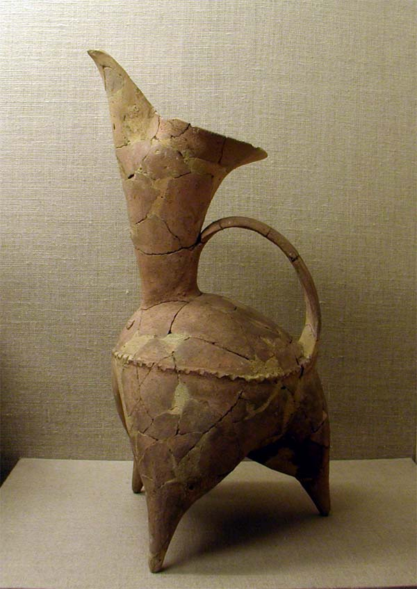 Gui from Dawenkou culture. Photograph taken by Mountain on July 28, 2004 at Peiking University.